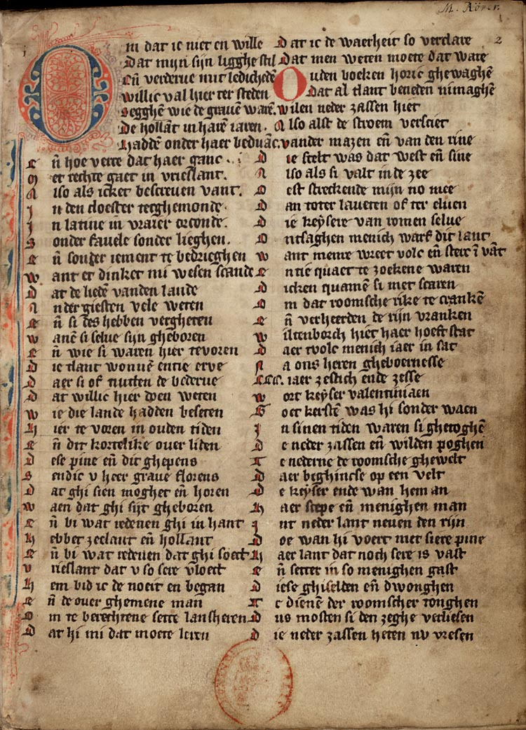 First page of the Rijmkroniek by Melis Stoke (Manuscript A, 14th century). Parchment, 90 pages